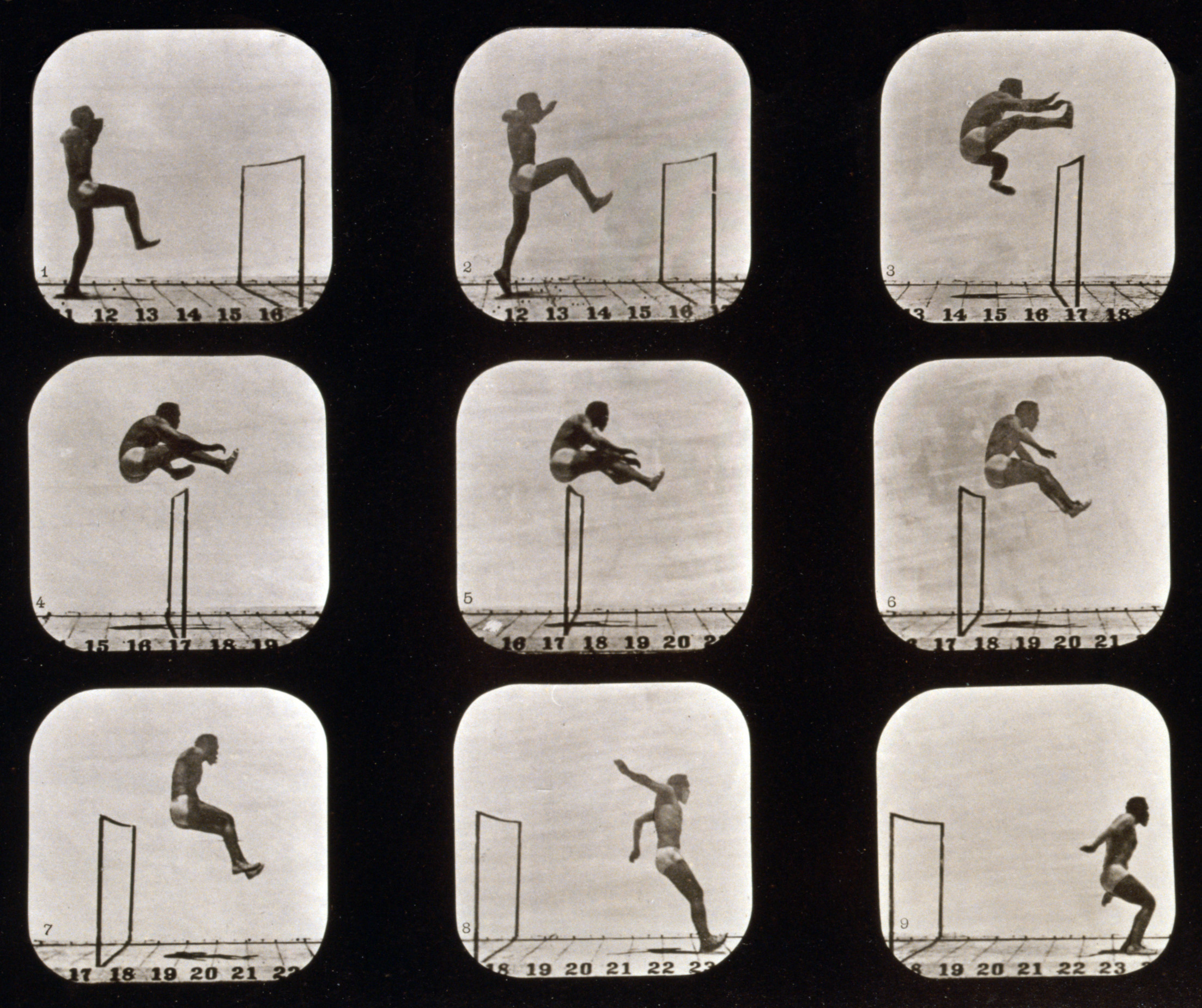 Nine consecutive photographs, capturing a man's jump over a hurdle